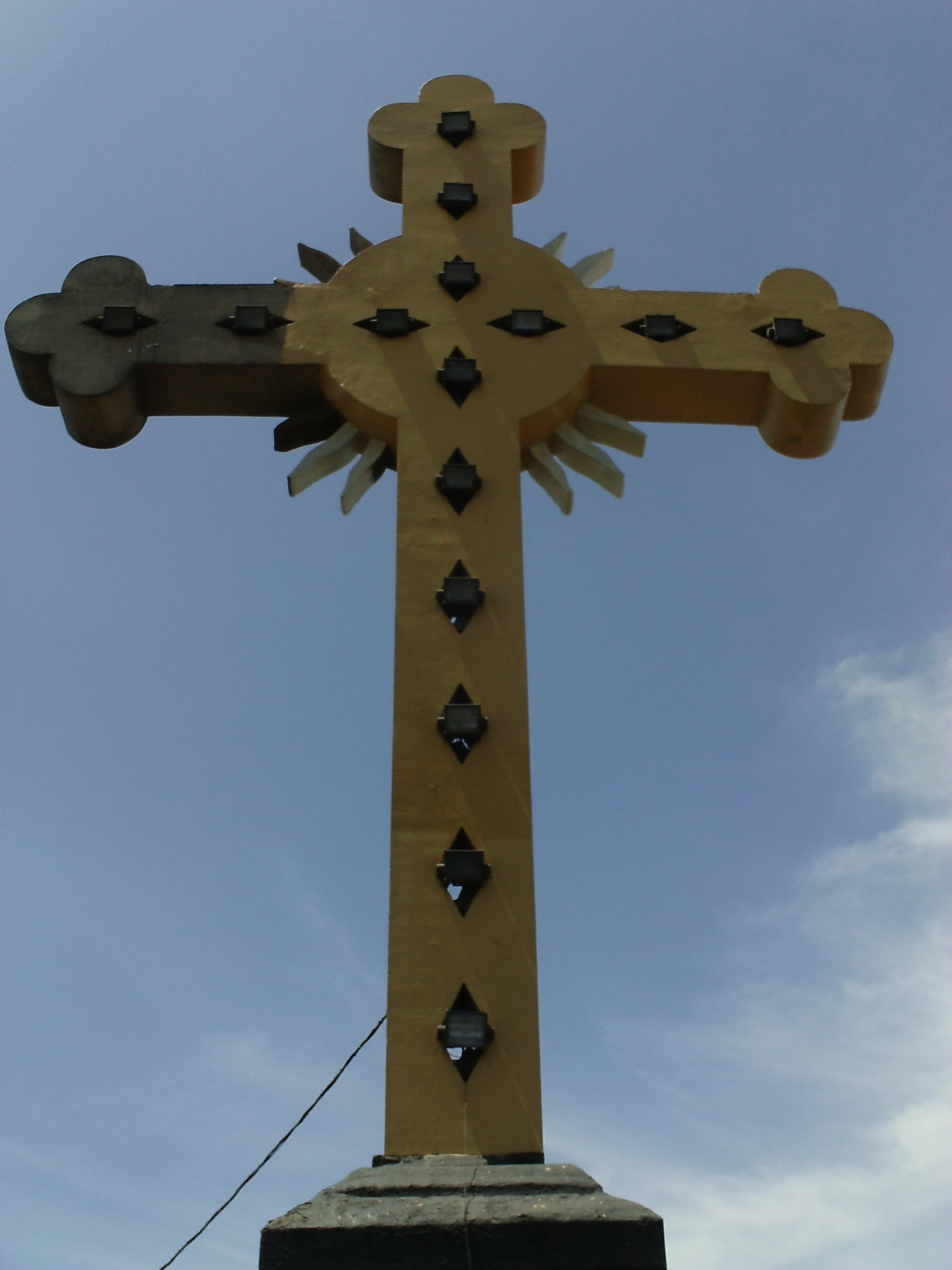 Monumental Cruz Cerro San Cristobal, close-up